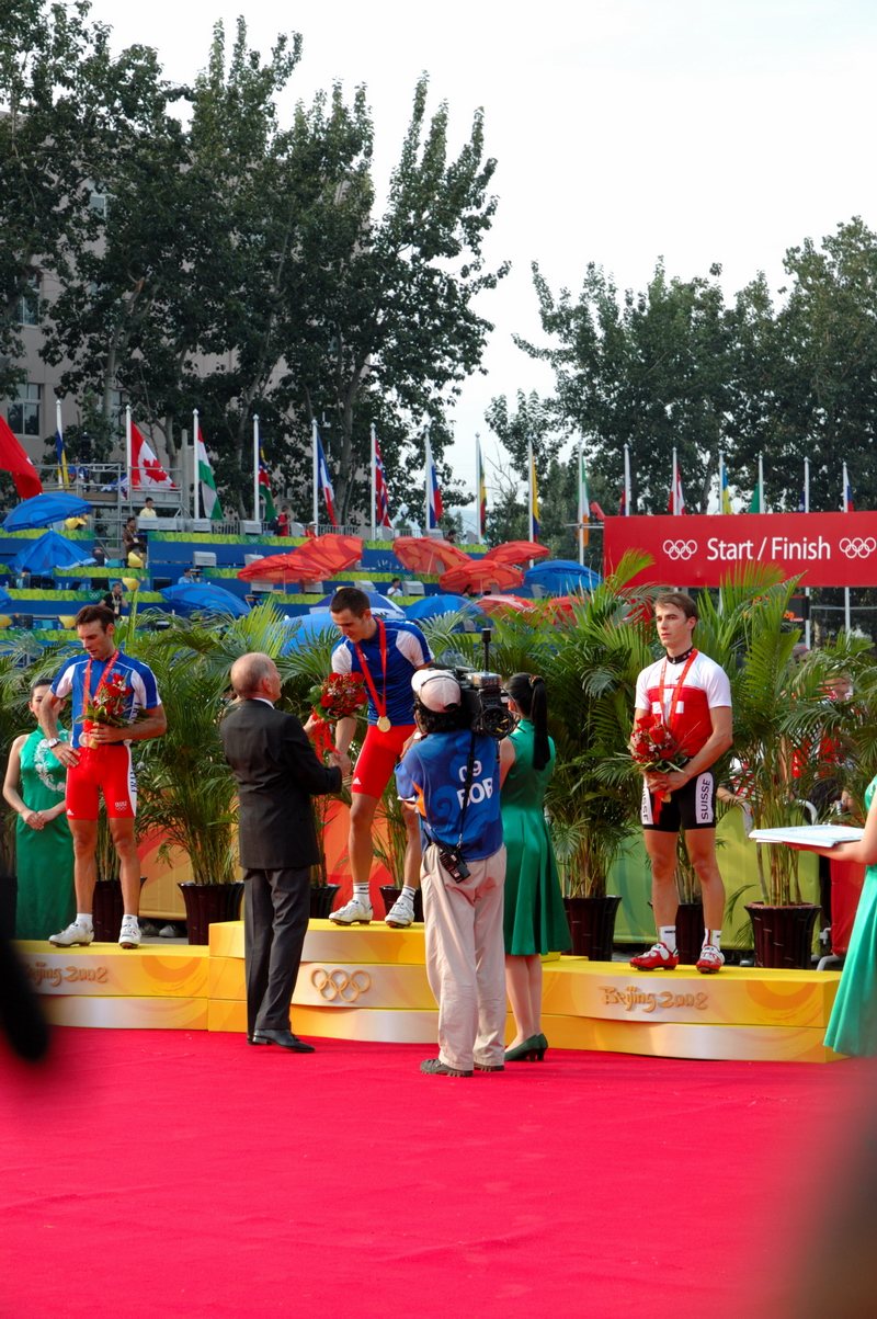 Julien Absalon, French gold medalist, Jean-Christophe Péraud, French silver medalist and Nino Schurter, Swiss bronze medalist.